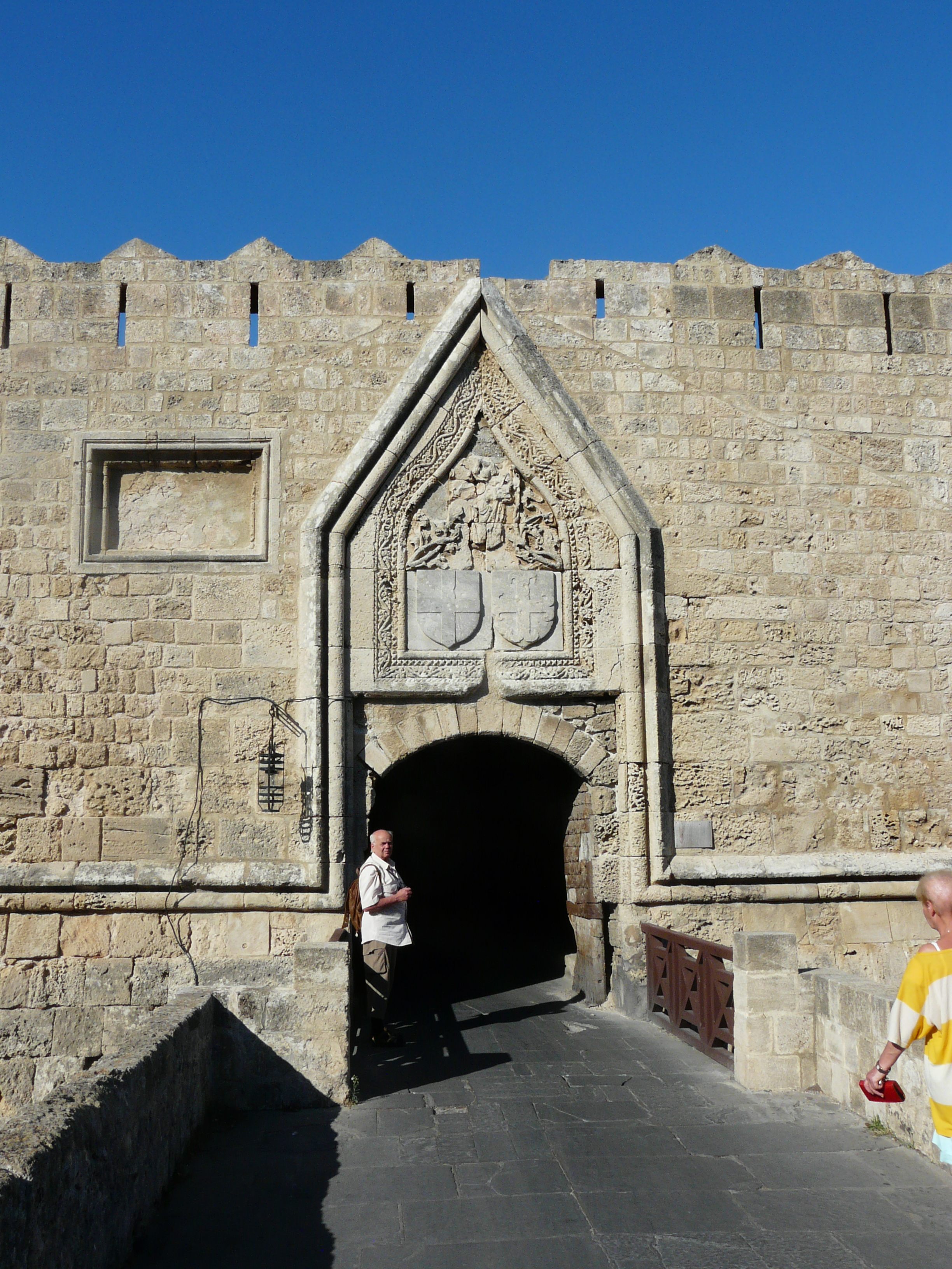 City of Rhodes.